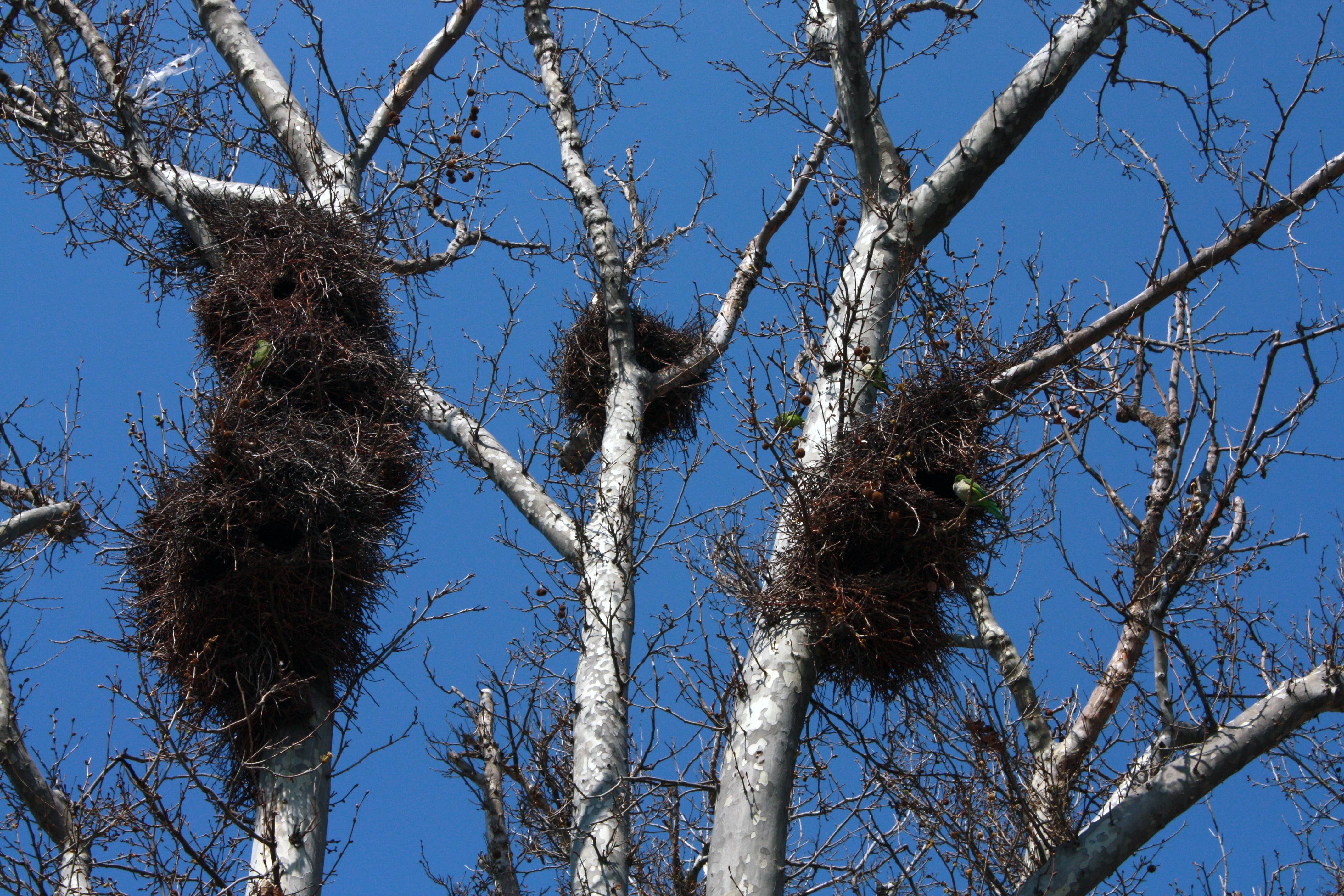 Monk Parakeets (also known as the Quaker Parrot) with their nests in Parque del Tío Jorge, Zaragoza (also called Saragossa in English), Spain.